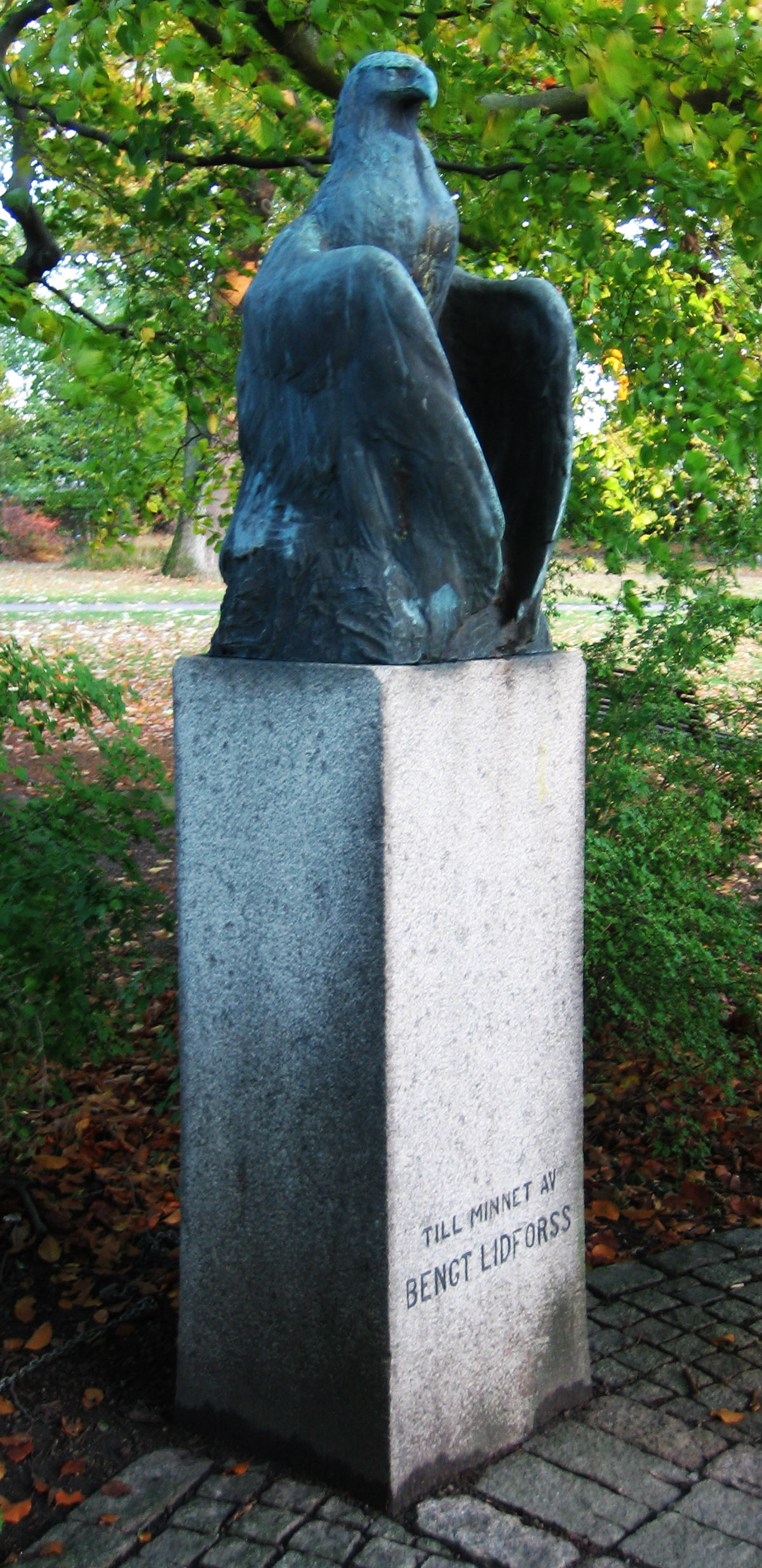 Monument in memory of swedish professor Bengt Lidforss (1868-1913) in Botaniska trädgården in Lund, Sweden. Photo by the uploader.